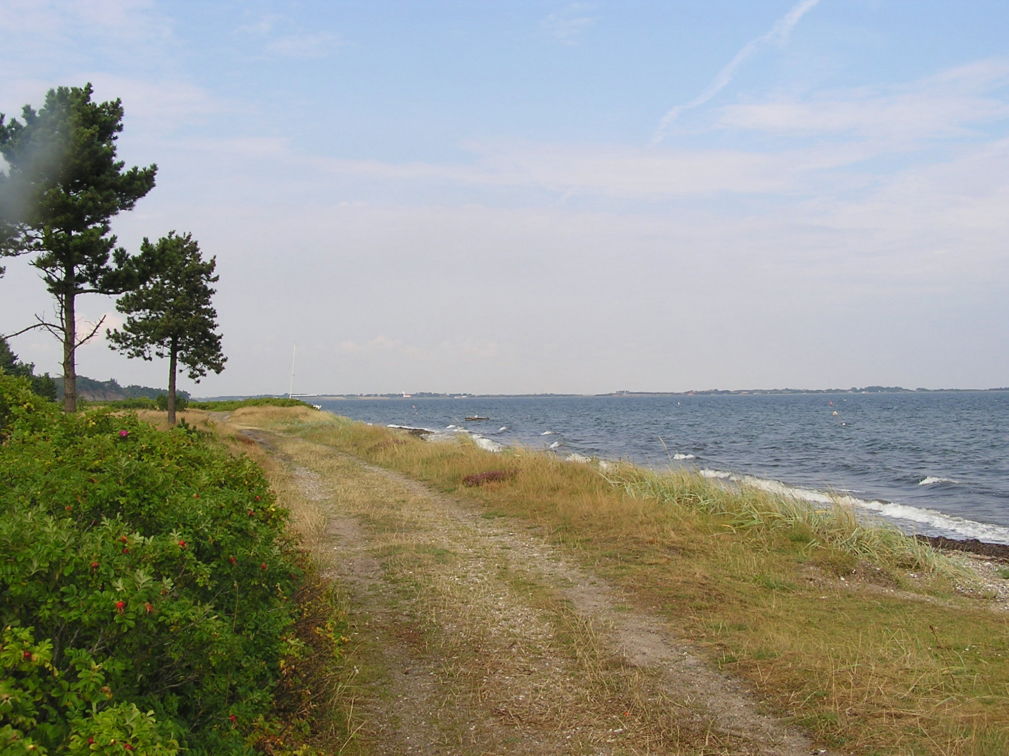 Limfjord